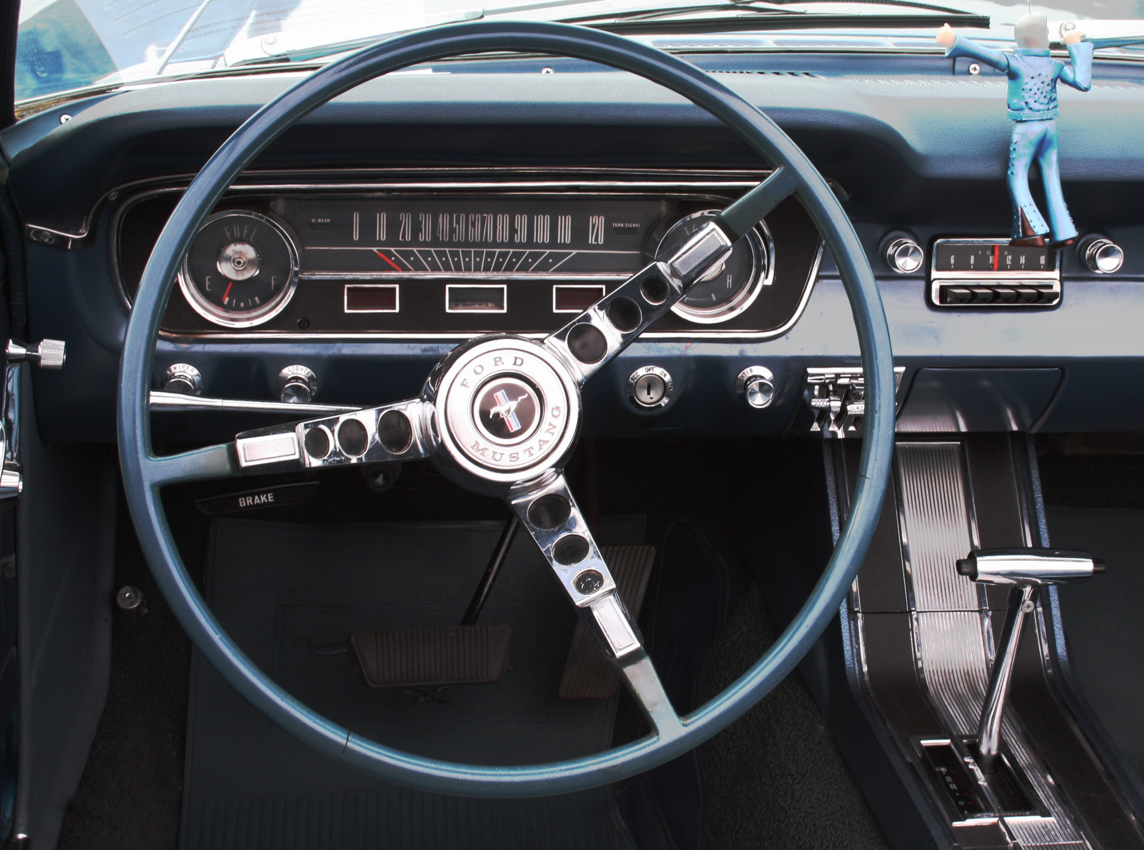 Ford Mustang - Year 1964